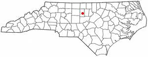 Category:North Carolina Dot Maps